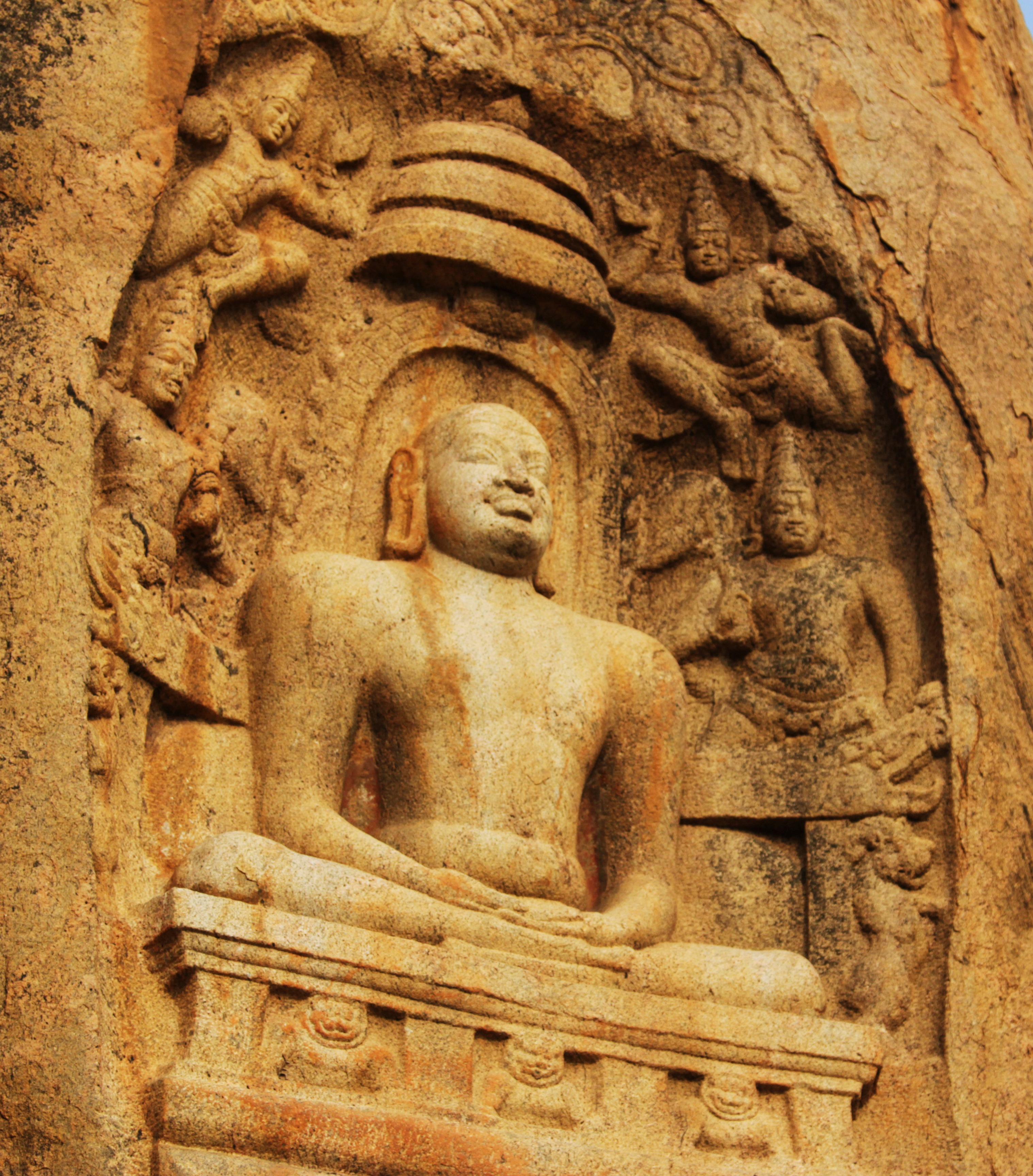 Vardhaman (Mahavira) sculpture at Keezhakuyilkudi, Madurai, Tamilnadu, India This is the crop of original image: Mahavira Keezhakuyilkudi